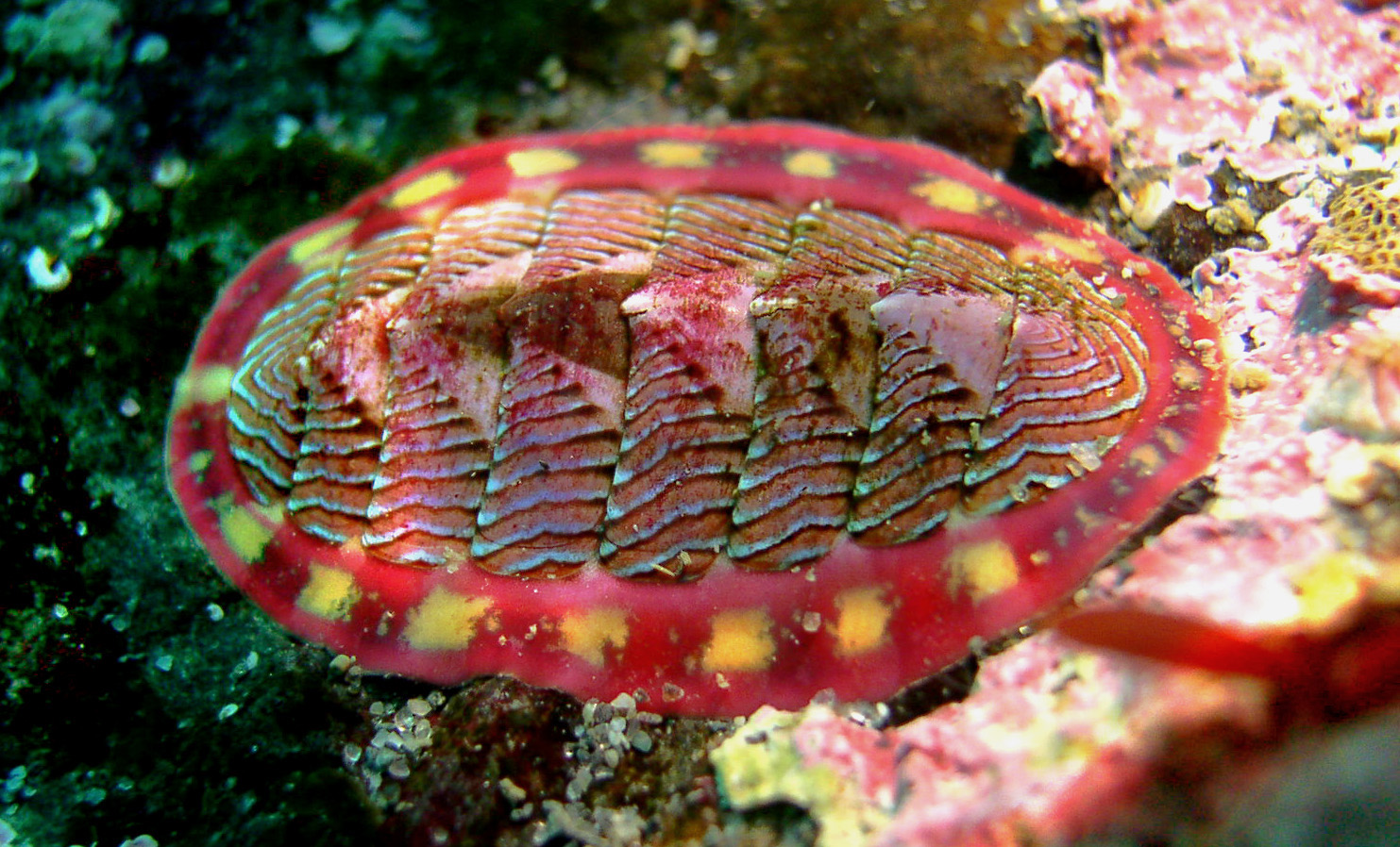 This is a Lined Chiton, Tonicella lineata. This picture was taken at about 50 feet depth on the west side of Whidbey Island, Washington.